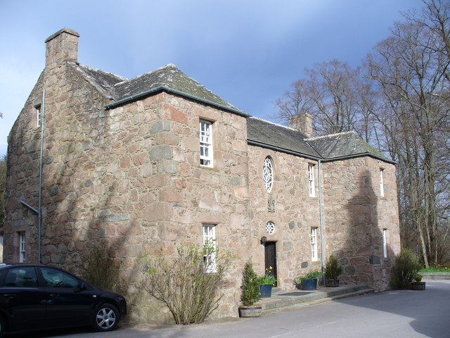 Former Laird's House, Raemoir A grand late 17th Century Hall House, architecture is now starting to avoid fortified features.